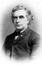 Jacobus Craandijk, writer